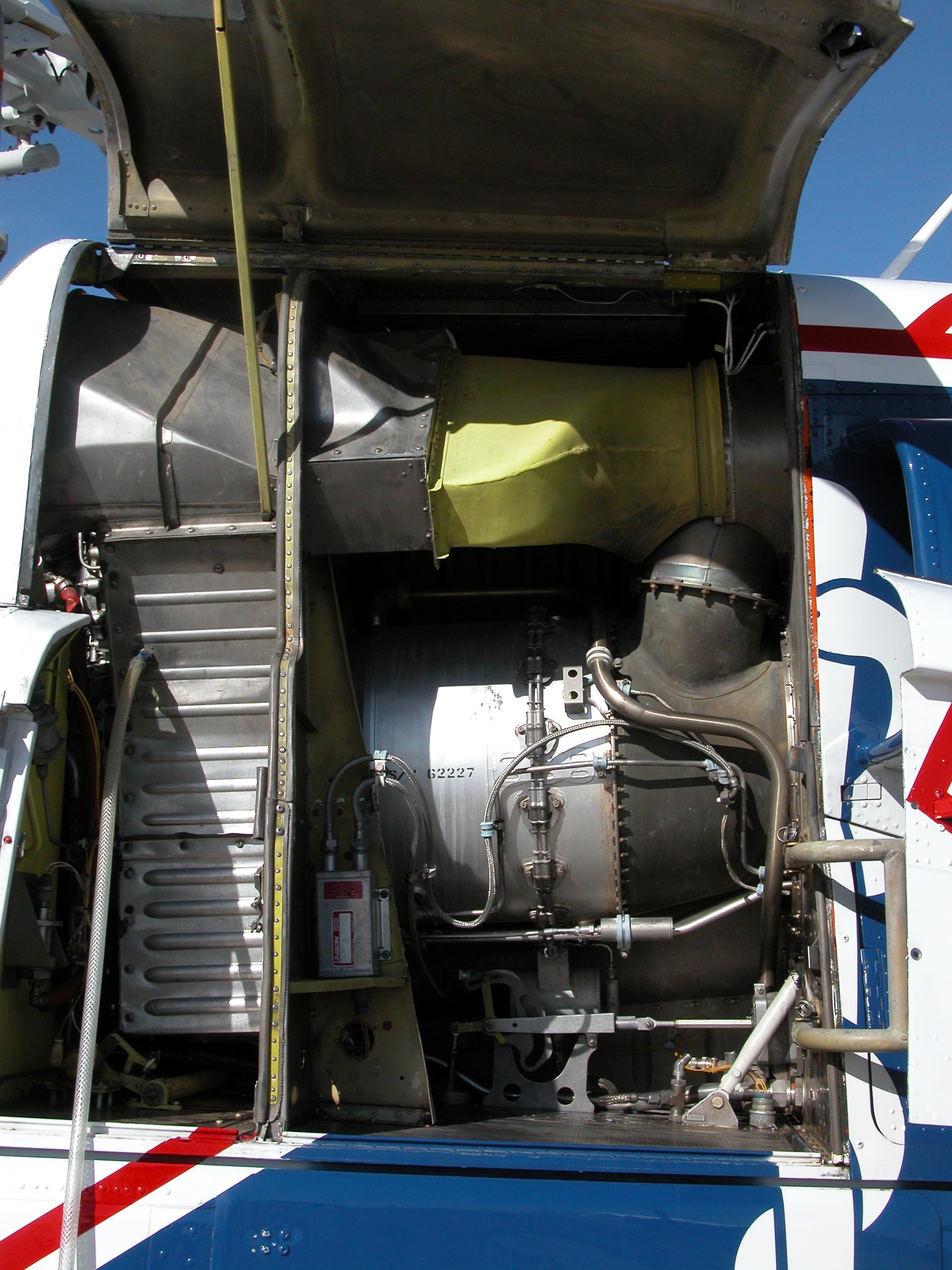 PT6T-3B (left half of a TwinPak) installed on a Bell 412